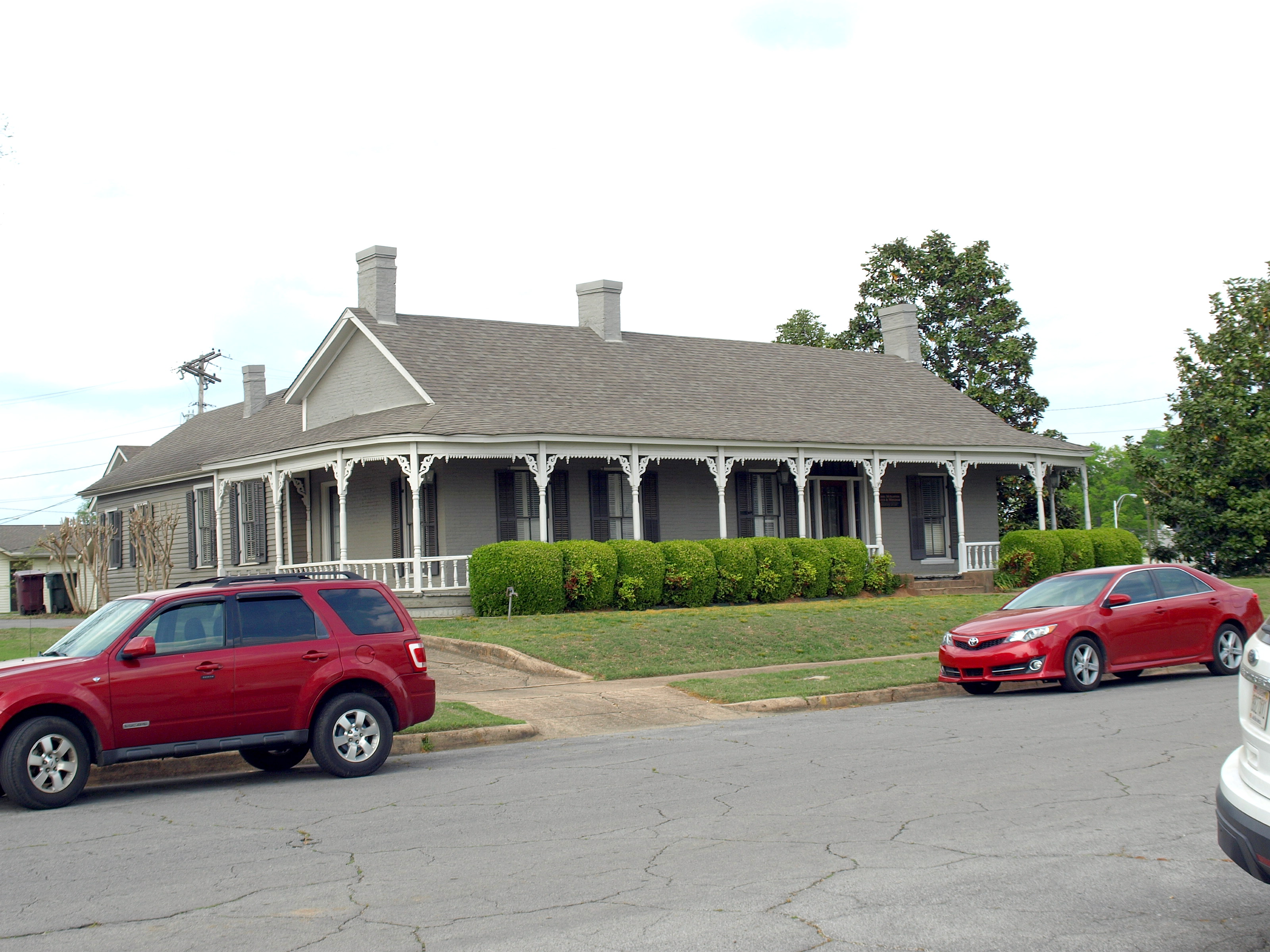 The Godley House in Tuscumbia, Alabama, part of the Colbert County Courthouse Square Historic District and the Tuscumbia Historic District, listed on the National Register of Historic Places.